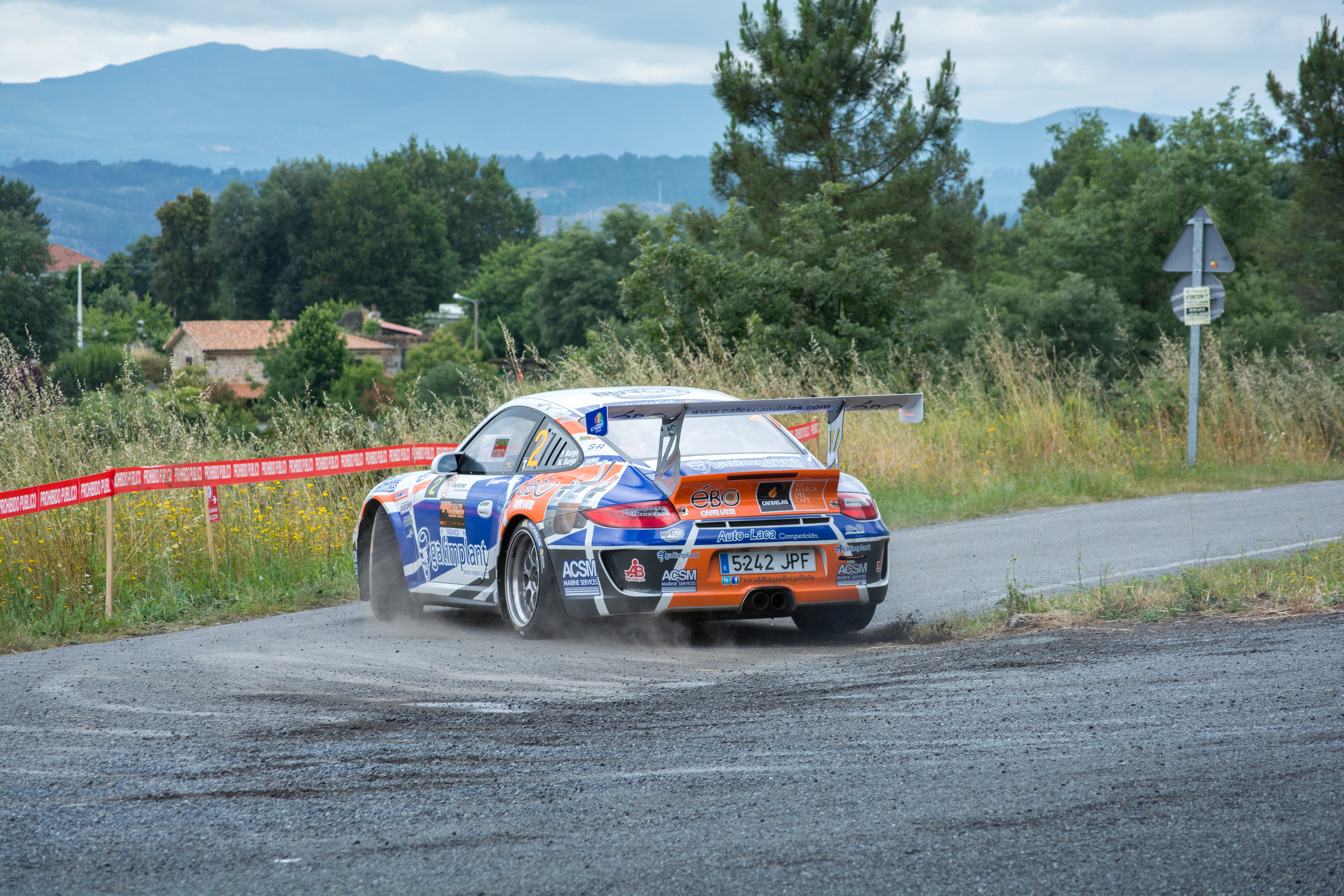 '49 TRally de Ourense ' in 2016, in the city of Ourense, scoring for the CERA.